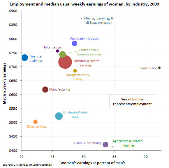 Of the 45 million women who worked full time in wage and salary jobs, 17 million were employed in education and health services, and 5 million were employed in wholesale and retail trade. Financial activities and professional and business services each employed about 4 million women. Median weekly earnings of women employed in education and health services were $717, which was 77 percent of men's median weekly earnings in that industry. In wholesale and retail trade, women's median weekly earnings were $523 (76 percent of men's earnings). Median weekly earnings of women employed in mining, quarrying, and oil and gas extraction ($873) and public administration ($783) were substantially higher than the earnings of their counterparts employed in leisure and hospitality ($421) and agriculture and related industries ($413). Women's-to-men's earnings ratios were higher among women employed in construction (92 percent) and agriculture and related industries (85 percent) than among women employed in other services (72 percent) and financial activities (71 percent). These data are from the Current Population Survey. To learn more, see Women in the Labor Force: A Databook (2010 Edition), BLS Report 1026, December 2010.